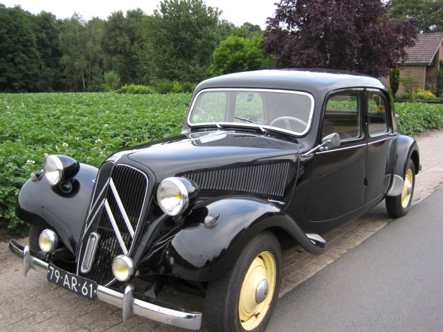 Citroën Traction Avant 11 B